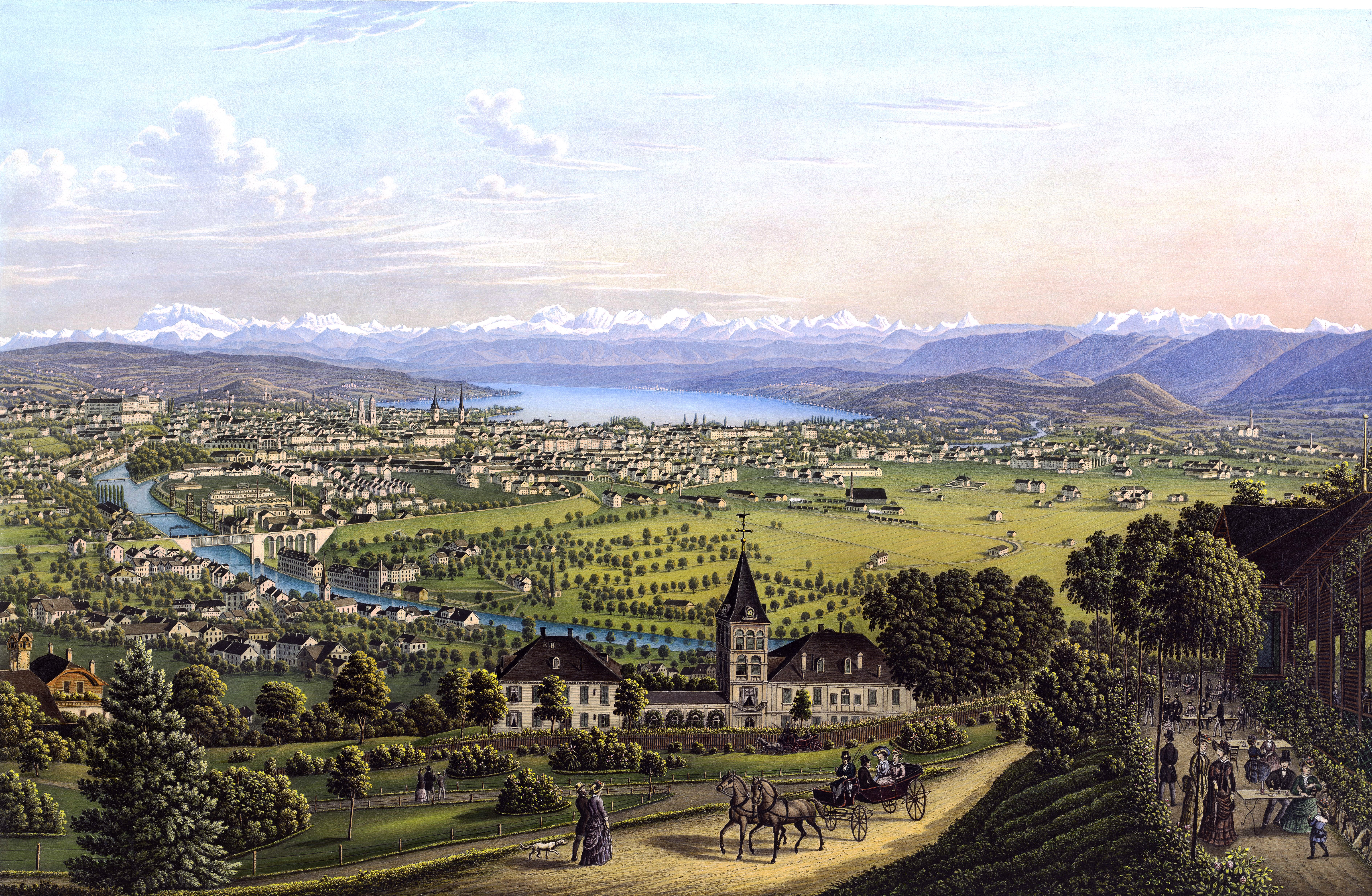 Overview of Zurich taken from the Weid